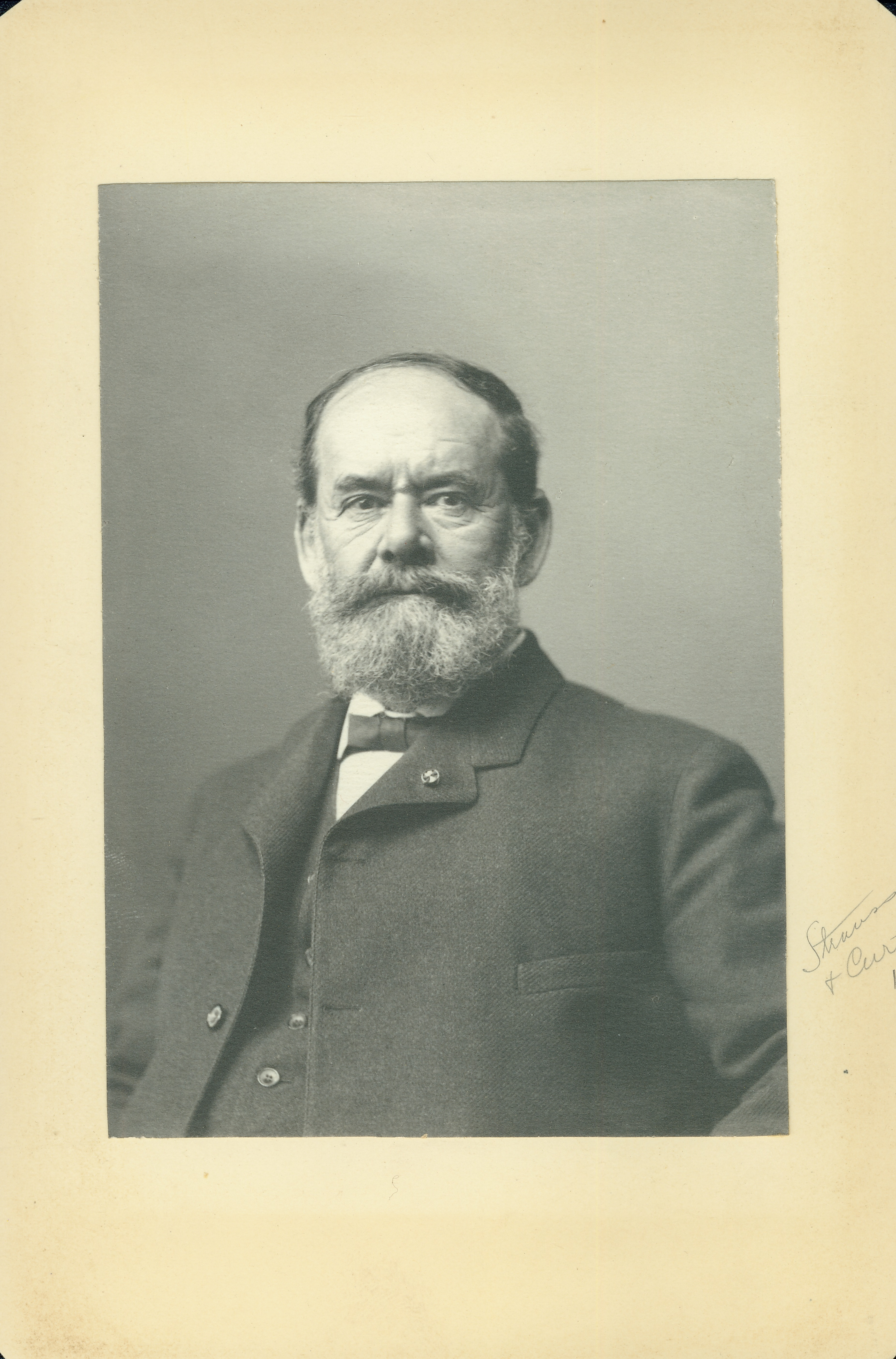 Bust portrait of Arnold Sutermeister wearing a suit, vest, and bow tie, and facing forward with his body turned to the left. "Strauss + [cut-off name]" (written on the right side of image).Title: Arnold Sutermeister, 11th Indiana Battery (Union).